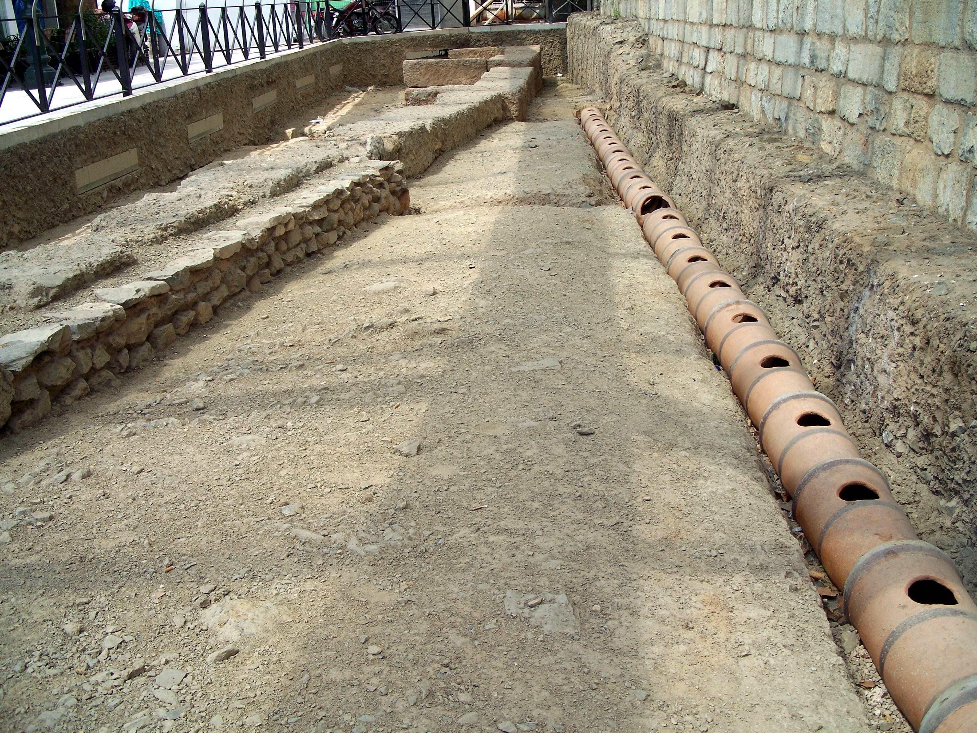 Part of the aqueduct constructed by Peisistratos and exposed during construction of the Athens metro, now on display at Syntagma square.